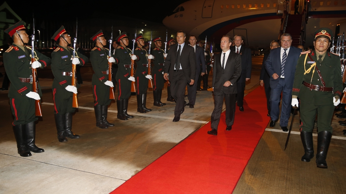 Medvedev in Laos